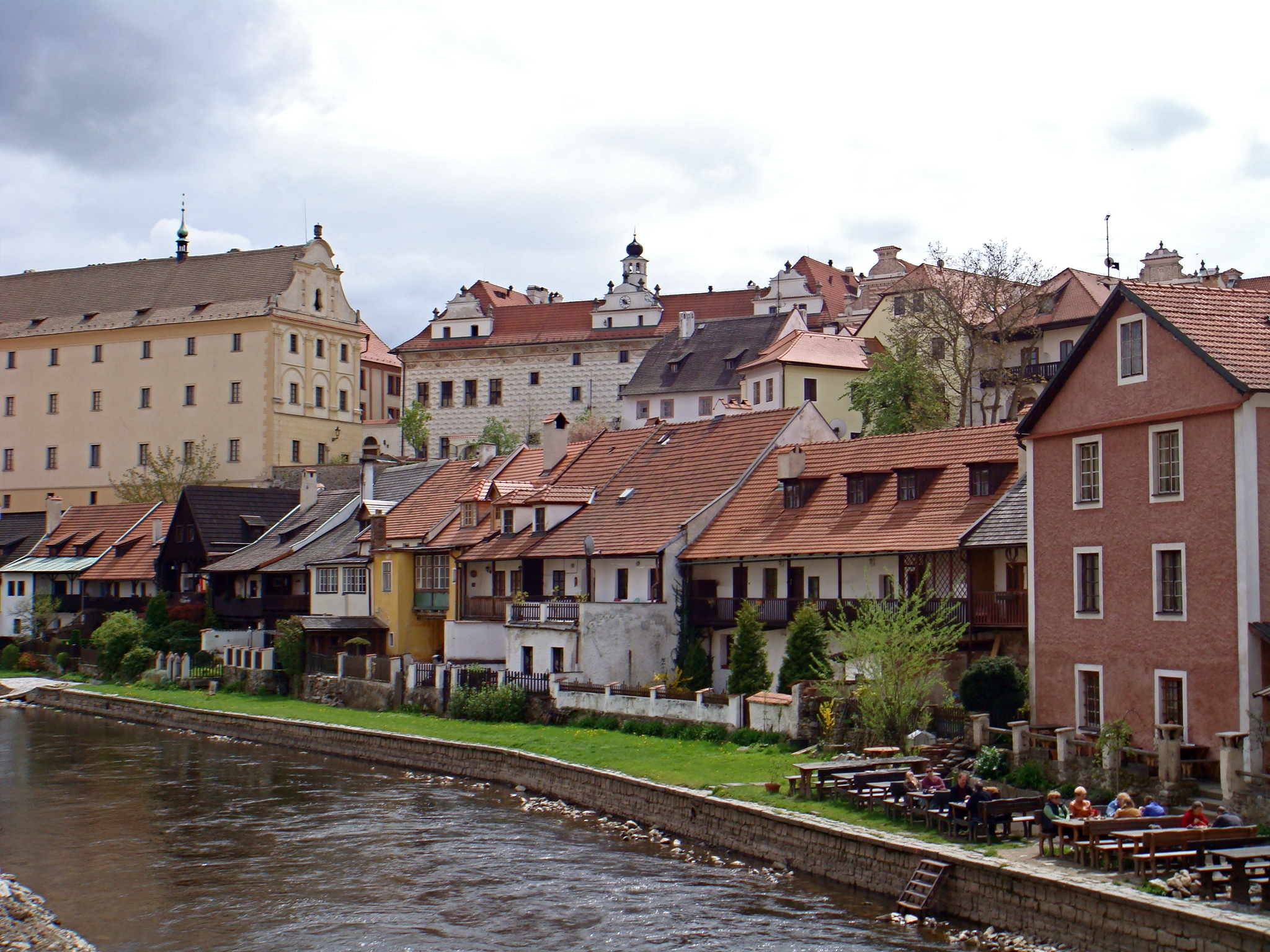 Historic Centre of Český Krumlov (Czech Republic)